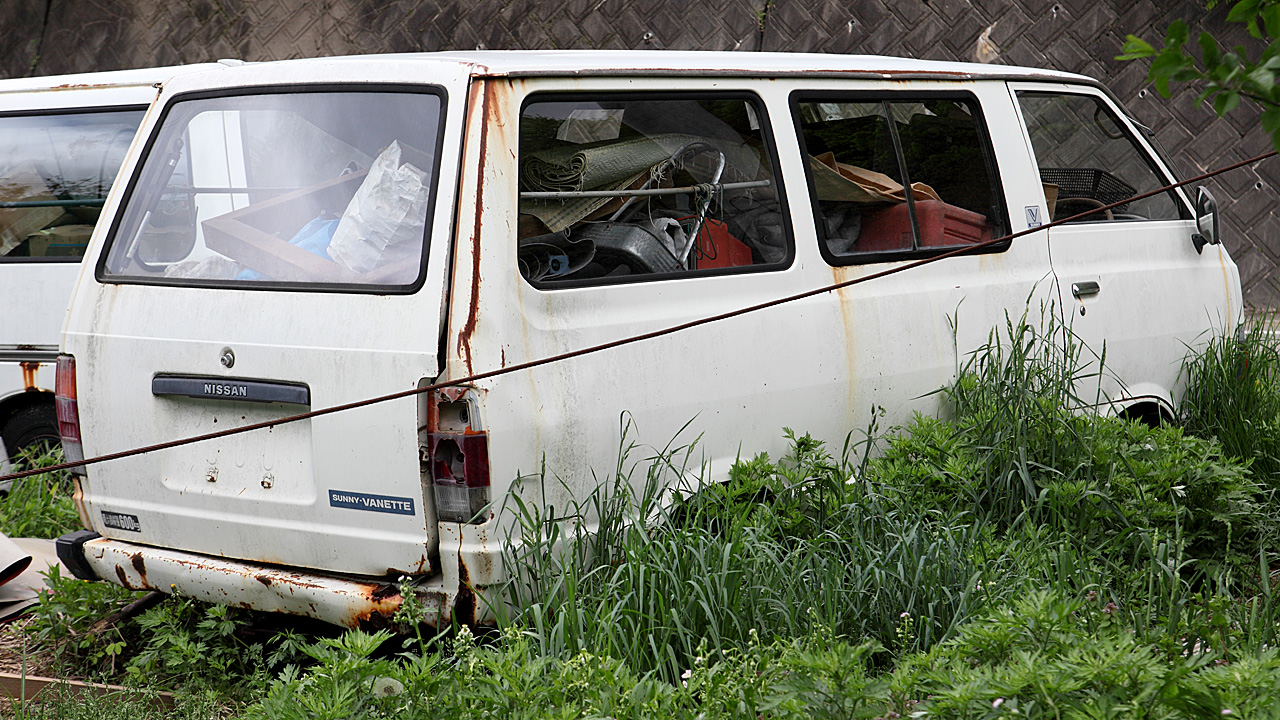 Nissan Sunny Vanette Van ( C120 )